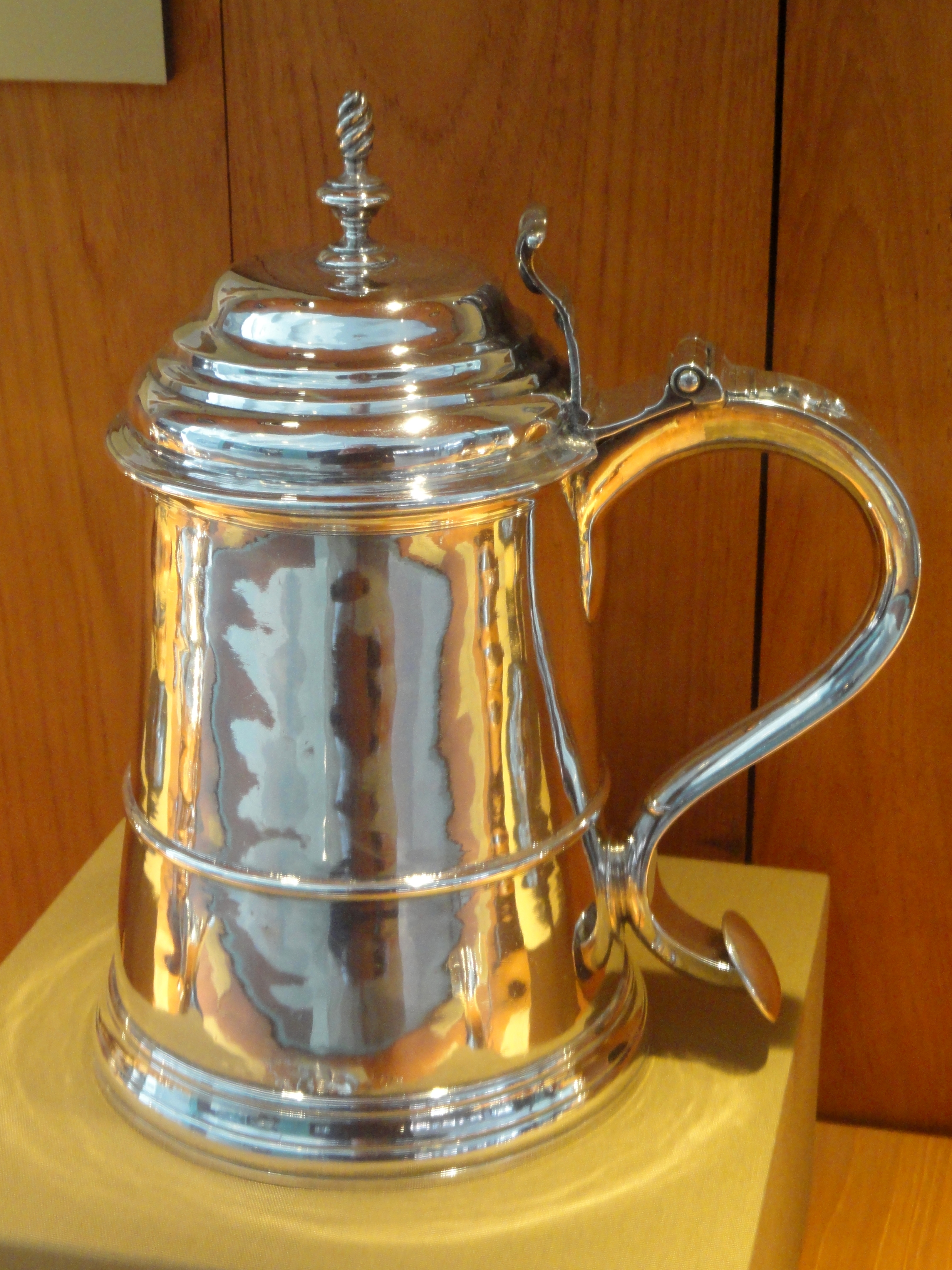 Tankard, Daniel Henchman, Boston, 1760-1770, silver - Hood Museum of Art, Dartmouth College, Hanover, New Hampshire, USA. This work is in the public domain because the artist died more than 70 years ago.